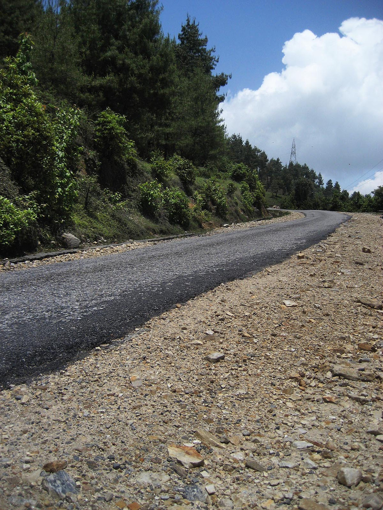 Dolakha District. Highway heading to Jiri, shot on Khati Dhunga, Dolakha (near by Charikot, Dolakha); 120 KM east from Capital city Kathmandu, Nepal.